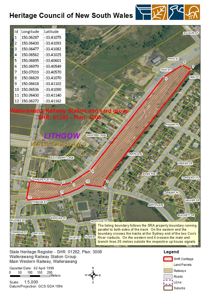 Wallerawang railway station : SHR Plan No 3008